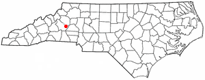 Category:North Carolina Dot Maps